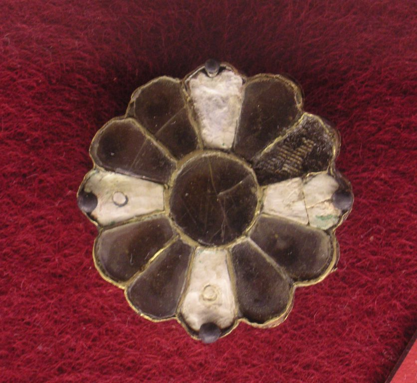 Plated fibula 6th century from the Gravejard of Weingarten, grave 511.